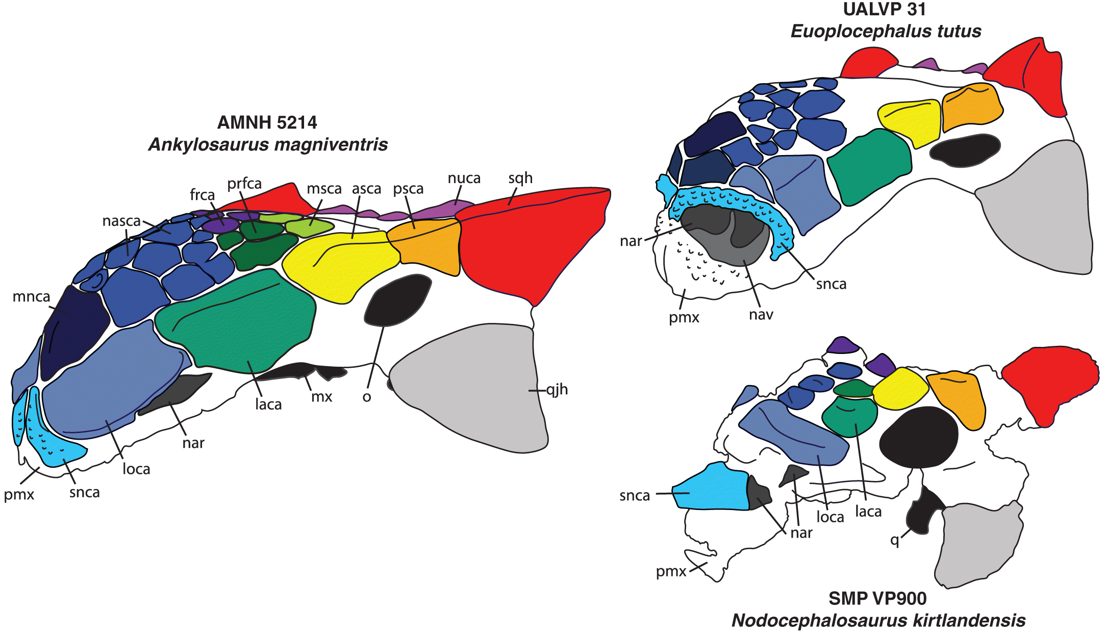 Skulls of Ankylosaurus, Euoplocephalus, and Nodocephalosaurus, in left anterolateral view. In Euoplocephalus, the supranarial caputegulum is rugose and forms an arch over the anteriorly placed nasal vestibule. In Ankylosaurus, the nasal vestibule and external naris is roofed by the loreal caputegulum, and the supranarial caputegulum is small and flush with the premaxilla. The holotype of Nodocephalosaurus is poorly preserved in the premaxillary region, but the external nares are also posteriorly placed and may be partly roofed by a ridge-like loreal caputegulum; the supranarial caputegulum is also ridged and projects anteriorly. asca, anterior supraorbital caputegulum; frca, frontal caputegulum; laca, lacrimal caputegulum; loca, loreal caputegulum; mnca, median nasal caputegulum; msca, middle supraorbital caputegulum; mx, maxilla; nasca, nasal caputegulum; nar, external naris; nav, nasal vestibule; nuca, nuchal caputegulum; o, orbit; pmx, premaxilla; psca, posterior supraorbital caputegulum; q, quadrate; qjh, quadratojugal horn; snca, supranarial caputegulum; sqh, squamosal horn.